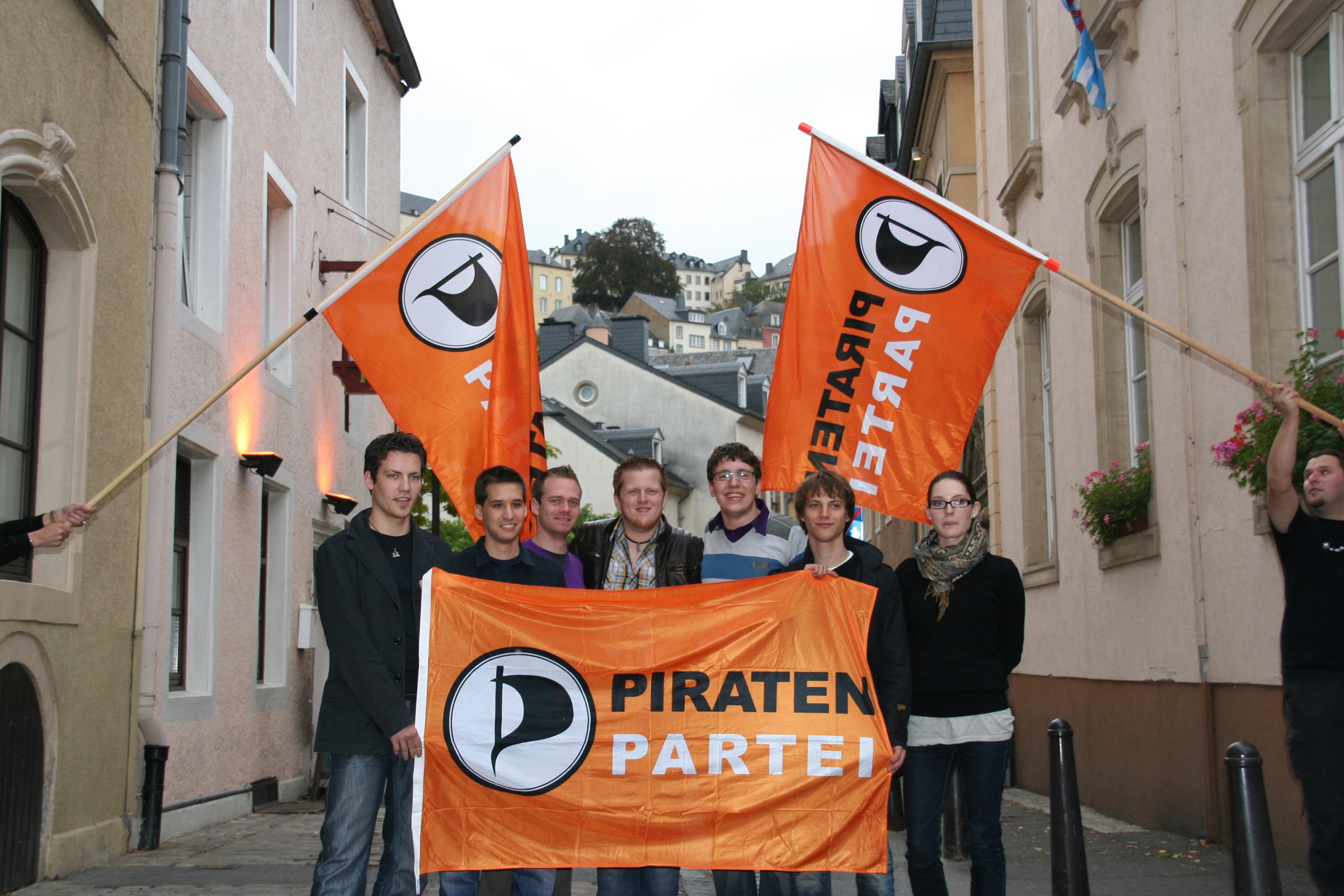 Founding assembly of the Luxembourg pirate party. Photo taken in Luxembourg-Grund on am Oktober 4th 2009.